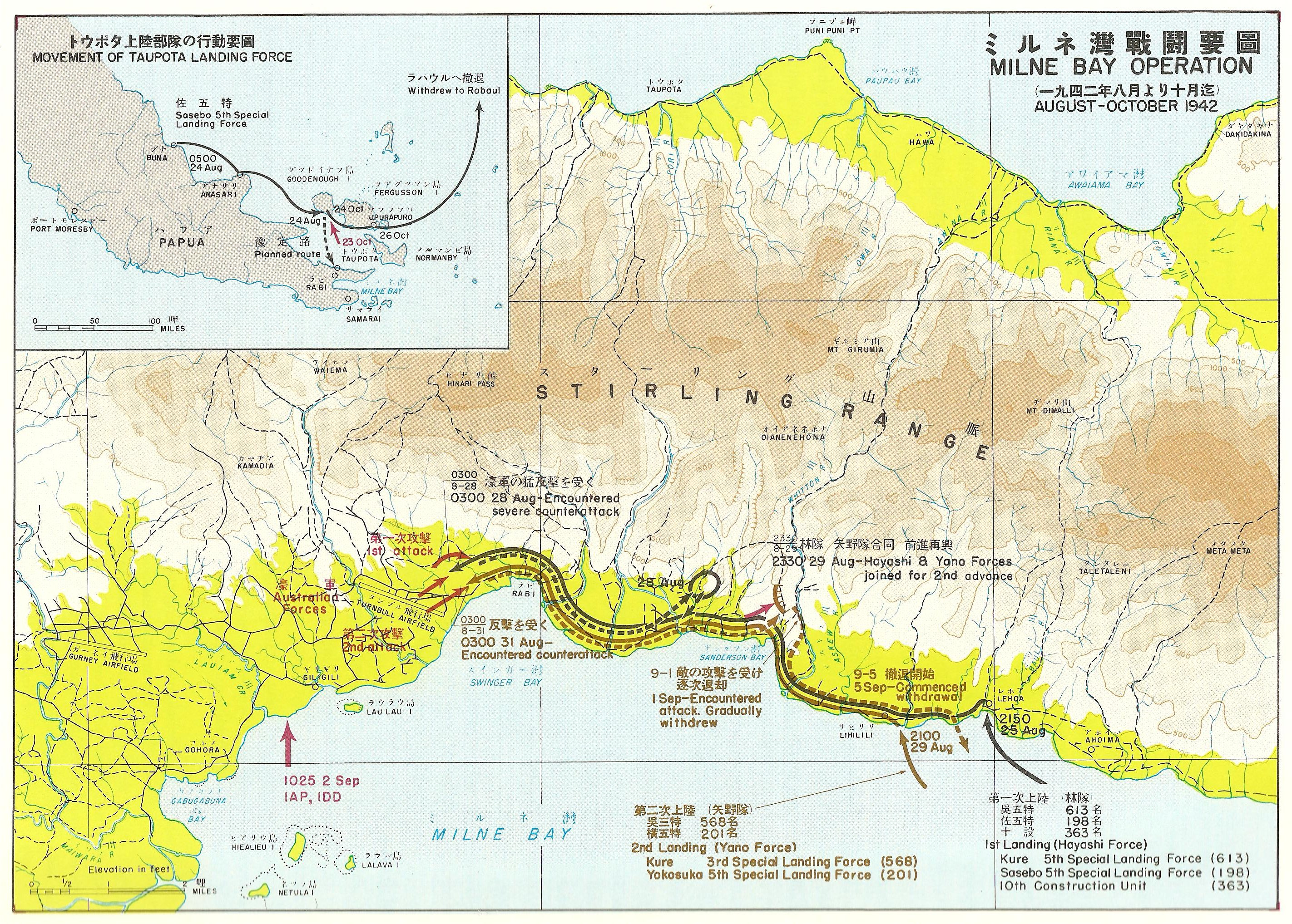 Japanese Landings on Milne Bay, August-October 1942